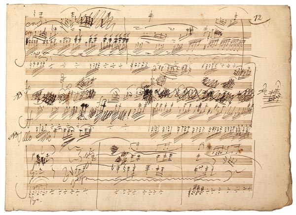 Manuscript of piano trio opus 70 by L.v. Beethoven